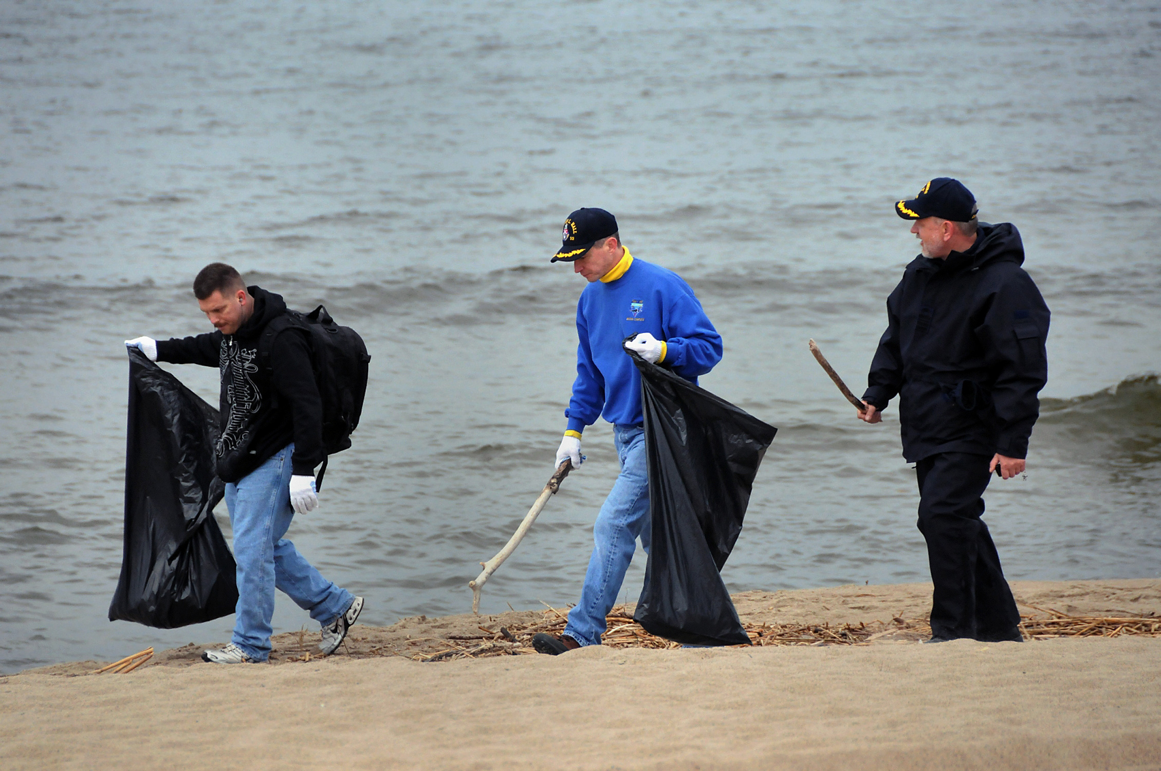 KLAIPEDA, Lithuania (May 5, 2010) Sailors assigned to the guided-missile cruiser USS Vicksburg (CG 69) and the Lithuanian navy clean the Melrange Municipality beach in Klaipeda, Lithuania. Vicksburg is conducting theater security cooperation port visits in the U.S. 6th Fleet area of responsibility. (U.S. Navy photo by Ensign Marc D. Schron/Released)